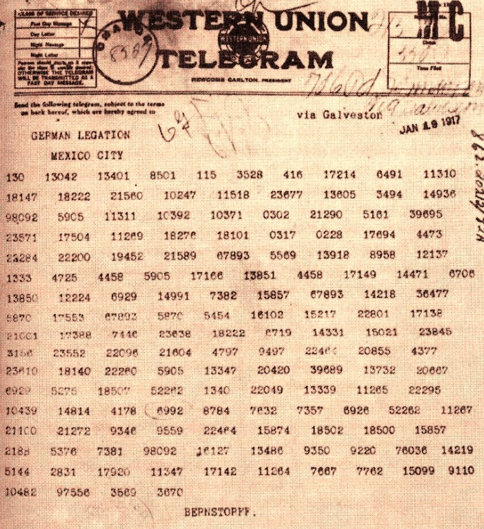 Historical Image of Zimmerman Telegram